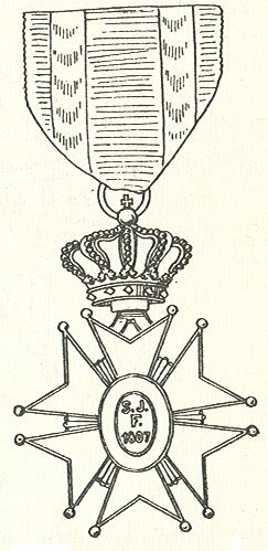 Knight of the Order of Saint Joseph, Toscany and Wuerzburg 1807